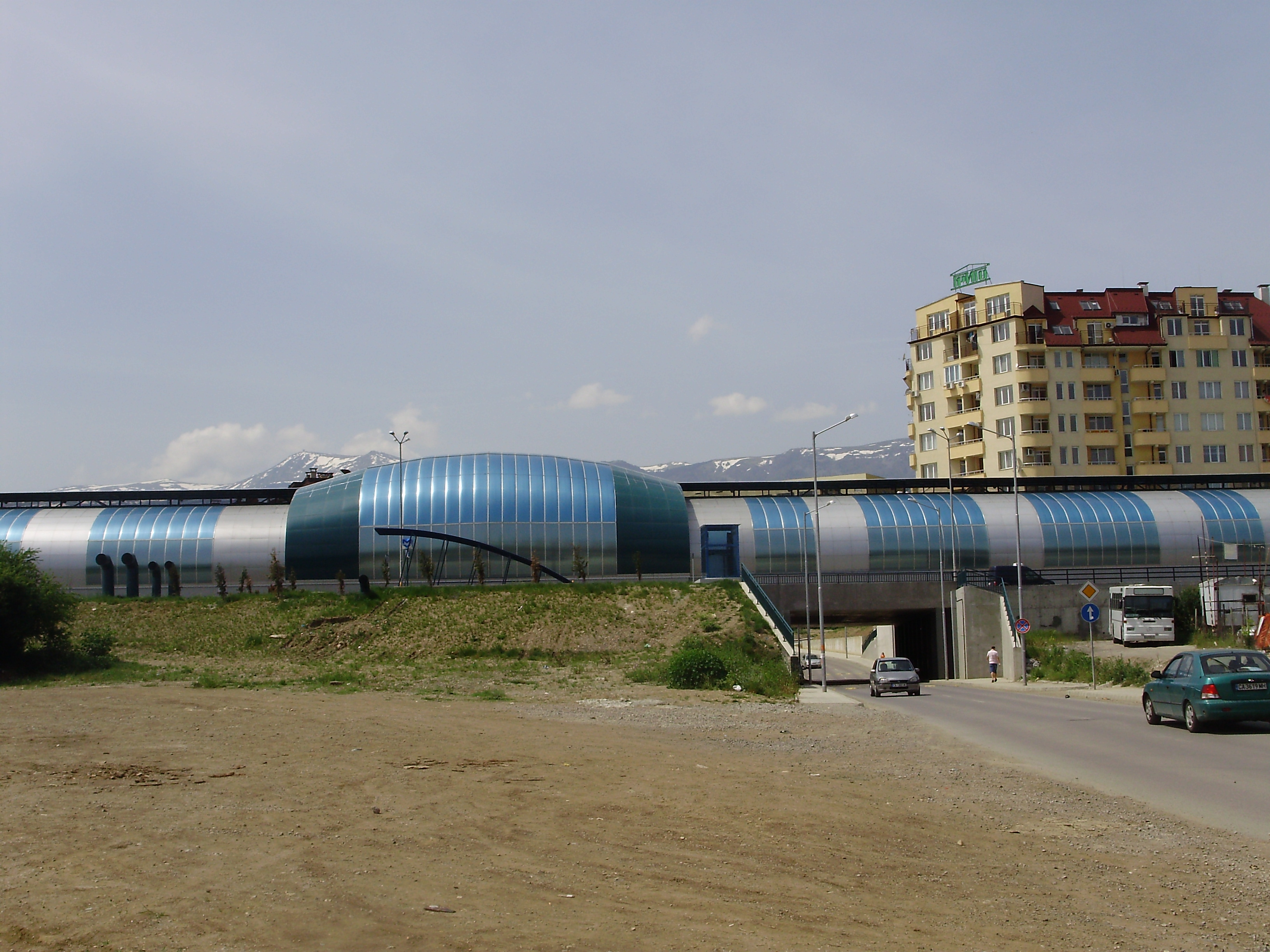 metrostation Musagenitsa